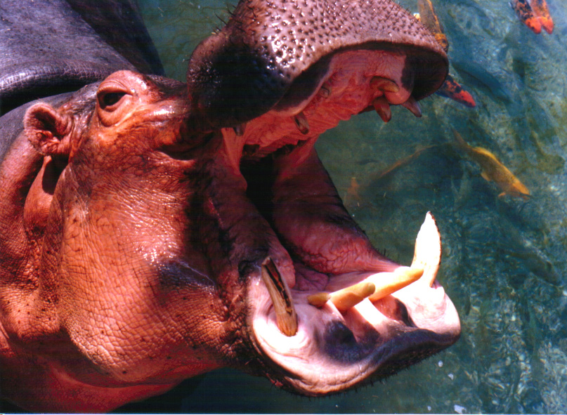 Hippopotamus in San Antonio Zoo, San Antonio, Texas